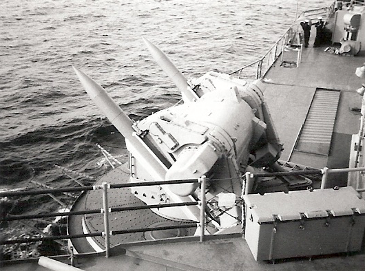 United States Navy GMLS Mark 11 Mod 2 port side missile launcher aboard USS Chicago (CG-11), circa in 1970. The RIM-24 Tartar magazines aboard Albany-class cruisers overhung the sides of the ship requiring safety nets visible outboard of the launcher. The blue missiles with white wings were dummy testing missiles used for display purposes. The circular hatch visible below the nearer missile is a door to vertical magazine cells below the launcher accessed by rotating the circular magazine cover and launcher over the cell to be loaded. The rectangular hatch visible on the deck behind the launcher was used to transfer RIM-8 Talos missiles into the forward Talos magazine.